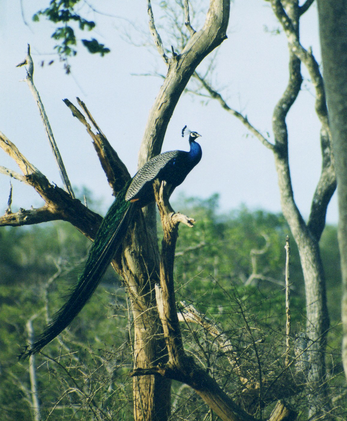 Pavo cristatus, photograph taken by self (Dineshkannambadi) at Addy's farmhouse,Hassan , Karnataka, India